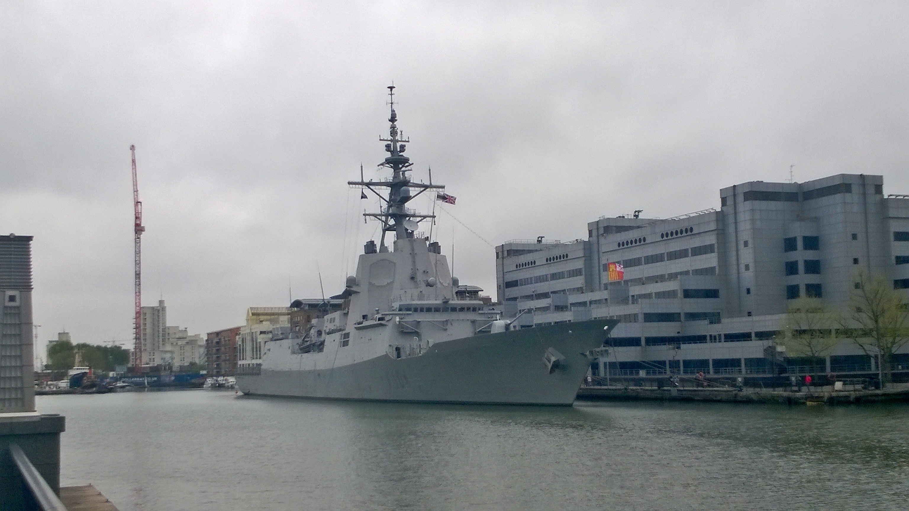 The Spanish air defence frigate Méndez Núñez moored at South Quay in London